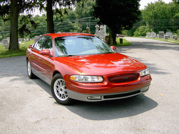 Picture of my Buick Regal GSX